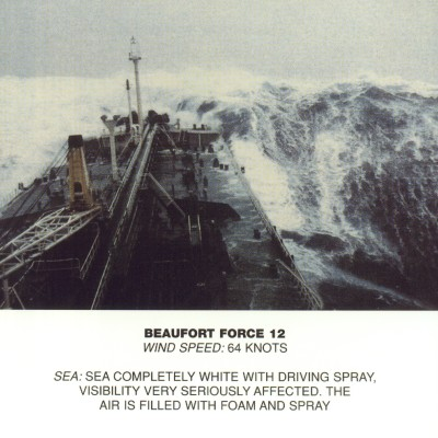 Beaufort scale image